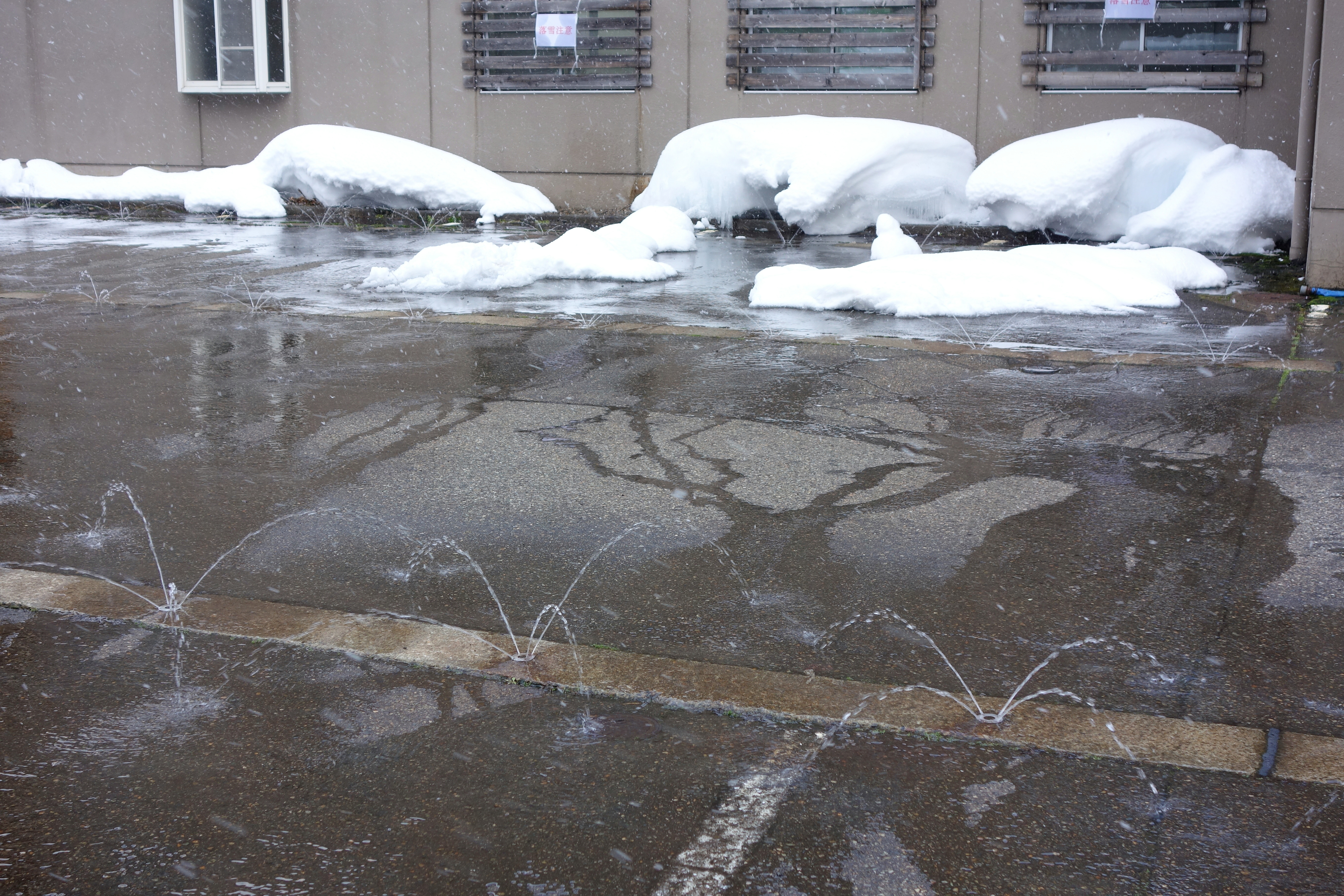 Winter scene in Yuzawa, Niigata, Japan.